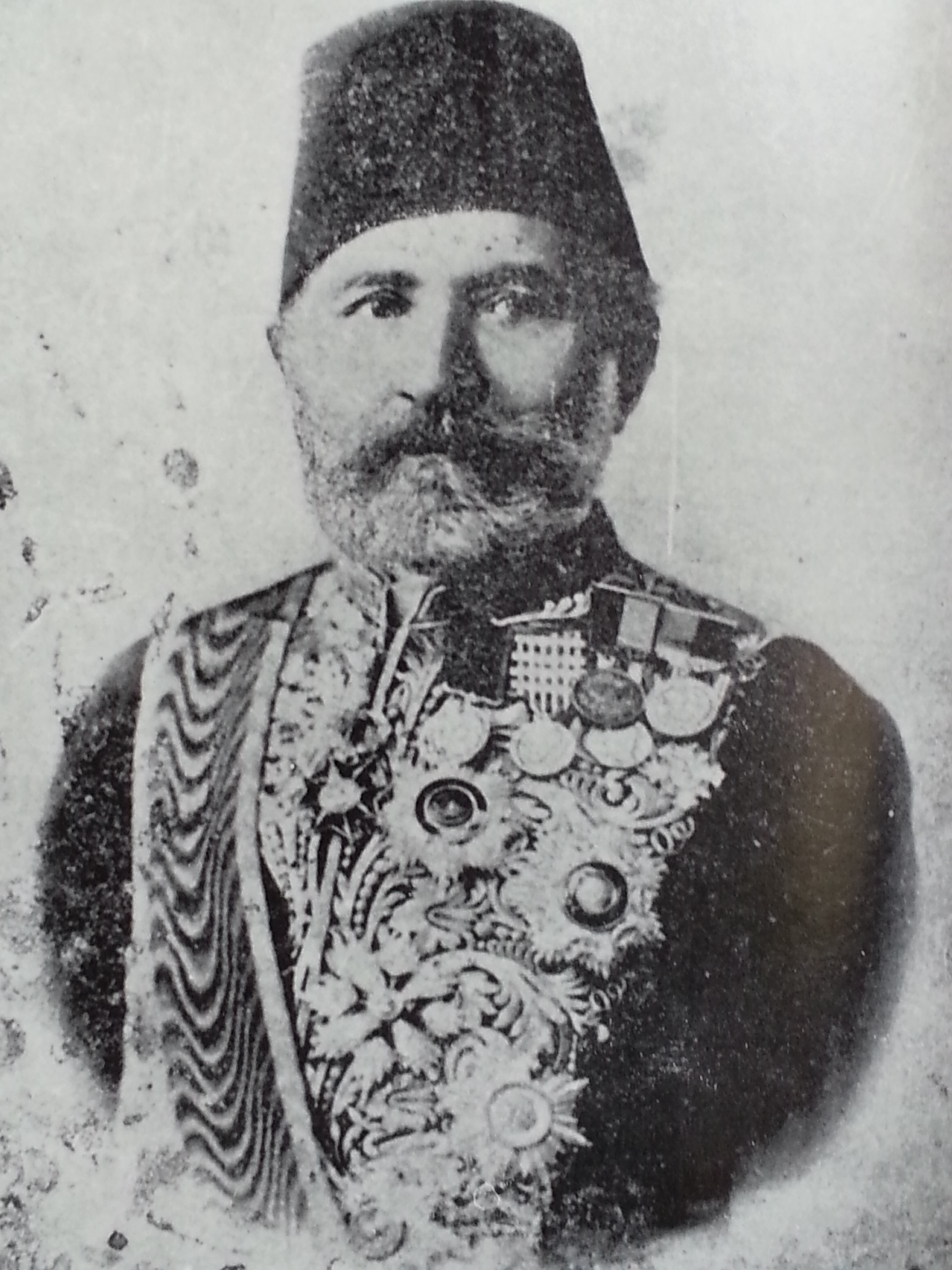 Wassa Pasha, 4th Mutasarrif of Mount Lebanon Mutasarrifate (1883-1892)